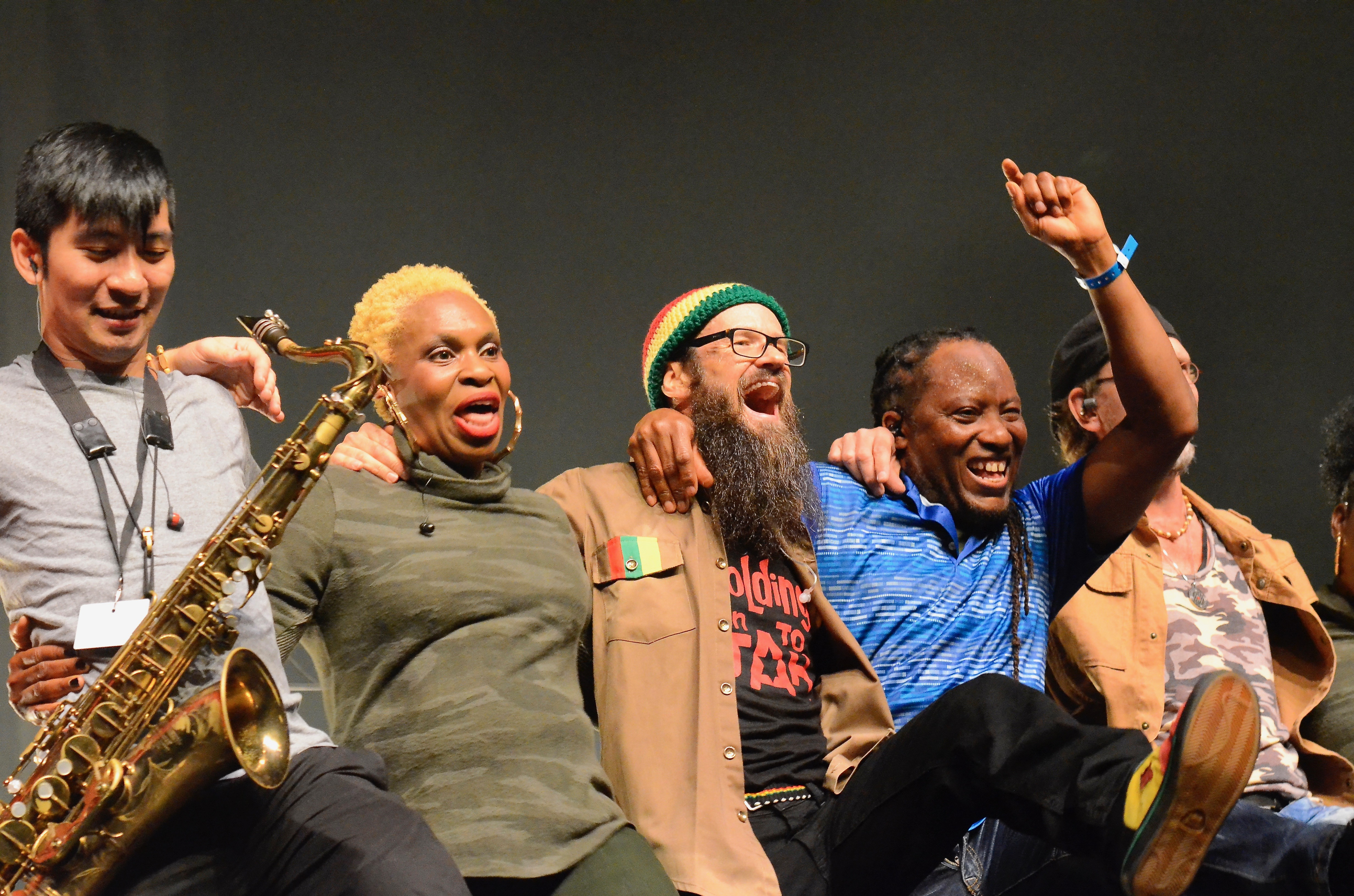 Groundation after their concert in Brussels October 20th 2018